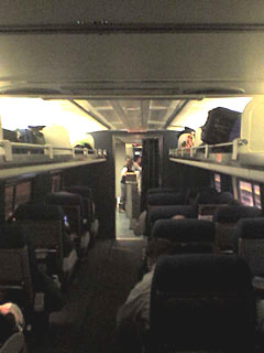 Business class on an Amtrak Amfleet coach (refurbished)